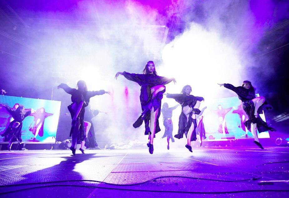 Выступление